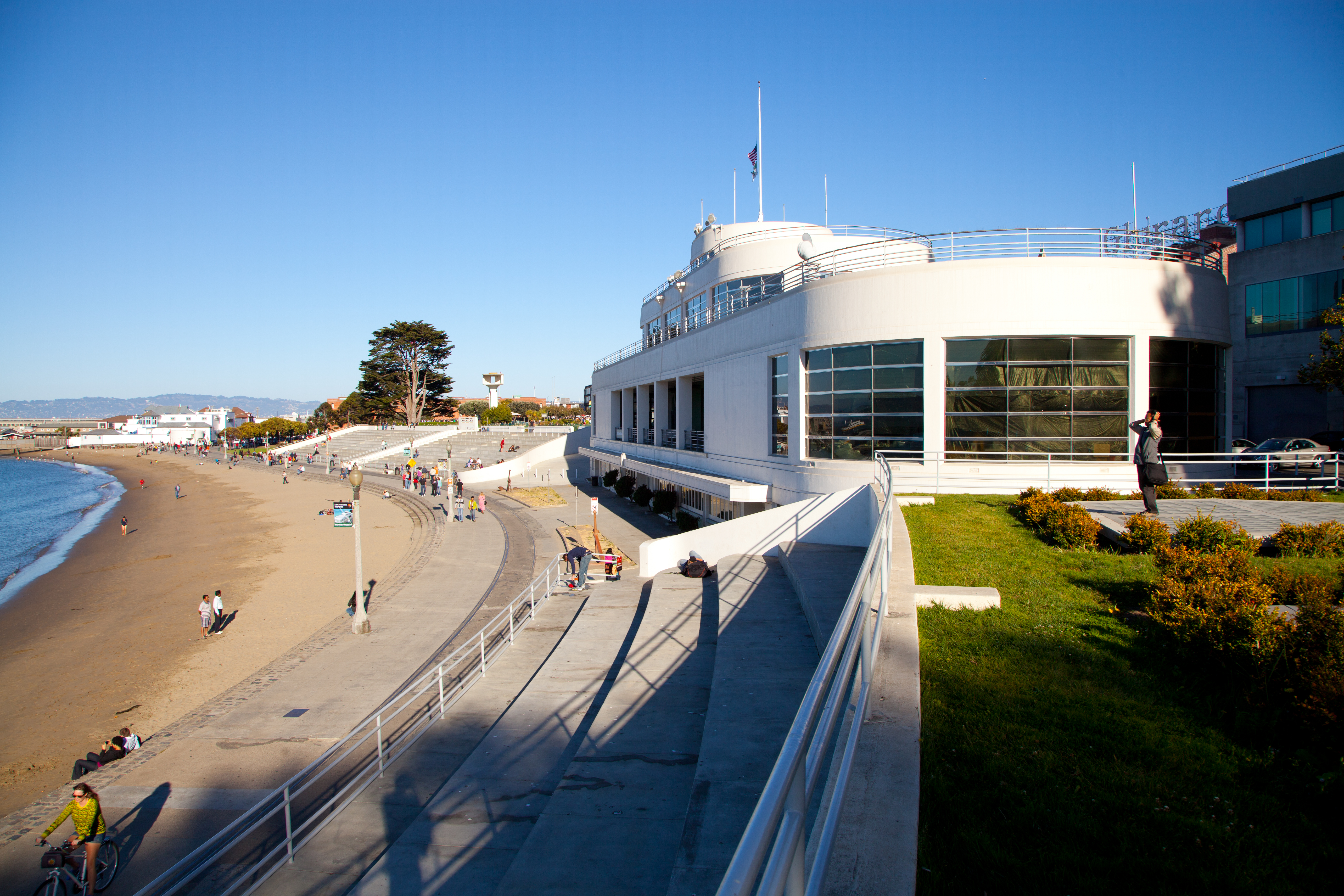 Aquatic Park Historic District